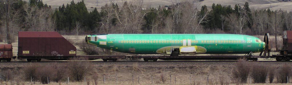 The fuselage of a Boeing 737 photographed underway to the Renton factory, on a train wagon.